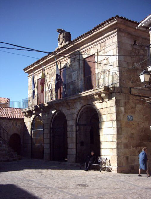 Ayuntamiento de Cilleros